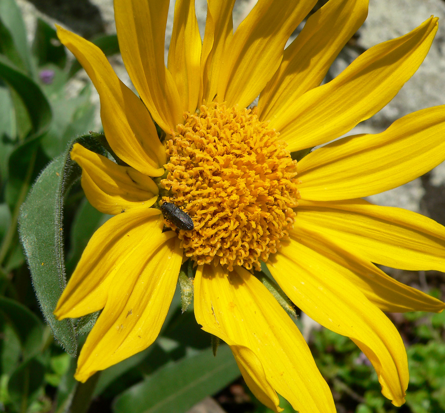 Photo of Helianthella castanea at the Regional Parks Botanic Garden, Berkeley, California